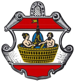 Coat of arms of the city of Baden, Lower Austria.